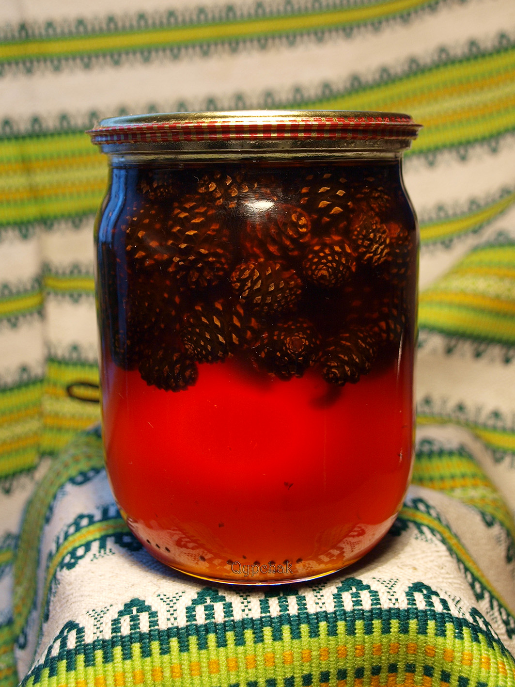 Pine cones jam made by the monks of Svyatohirska Lavra (Ukraine, 2013)